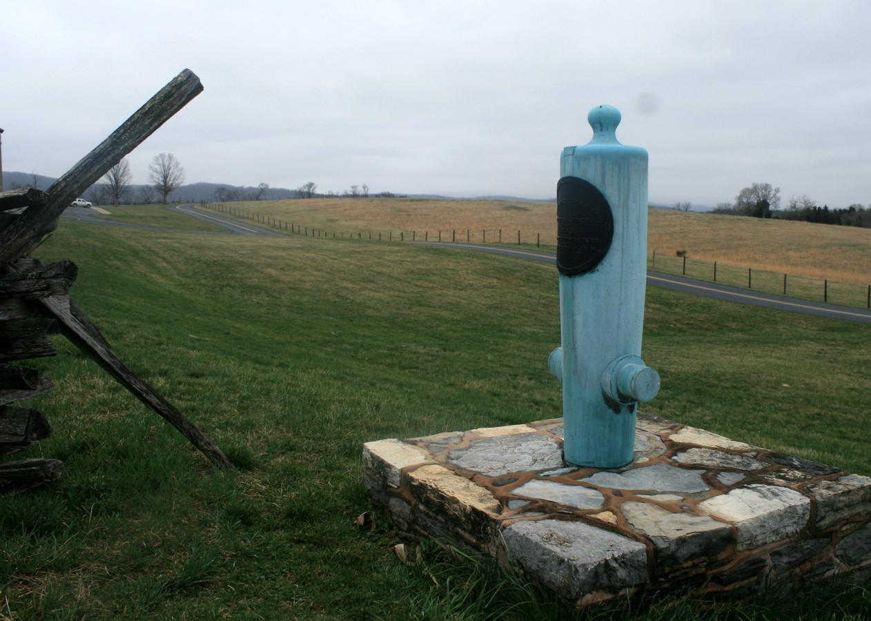 Antietam Battlefield, Sunken-road. Site of gen. Anderson wound.